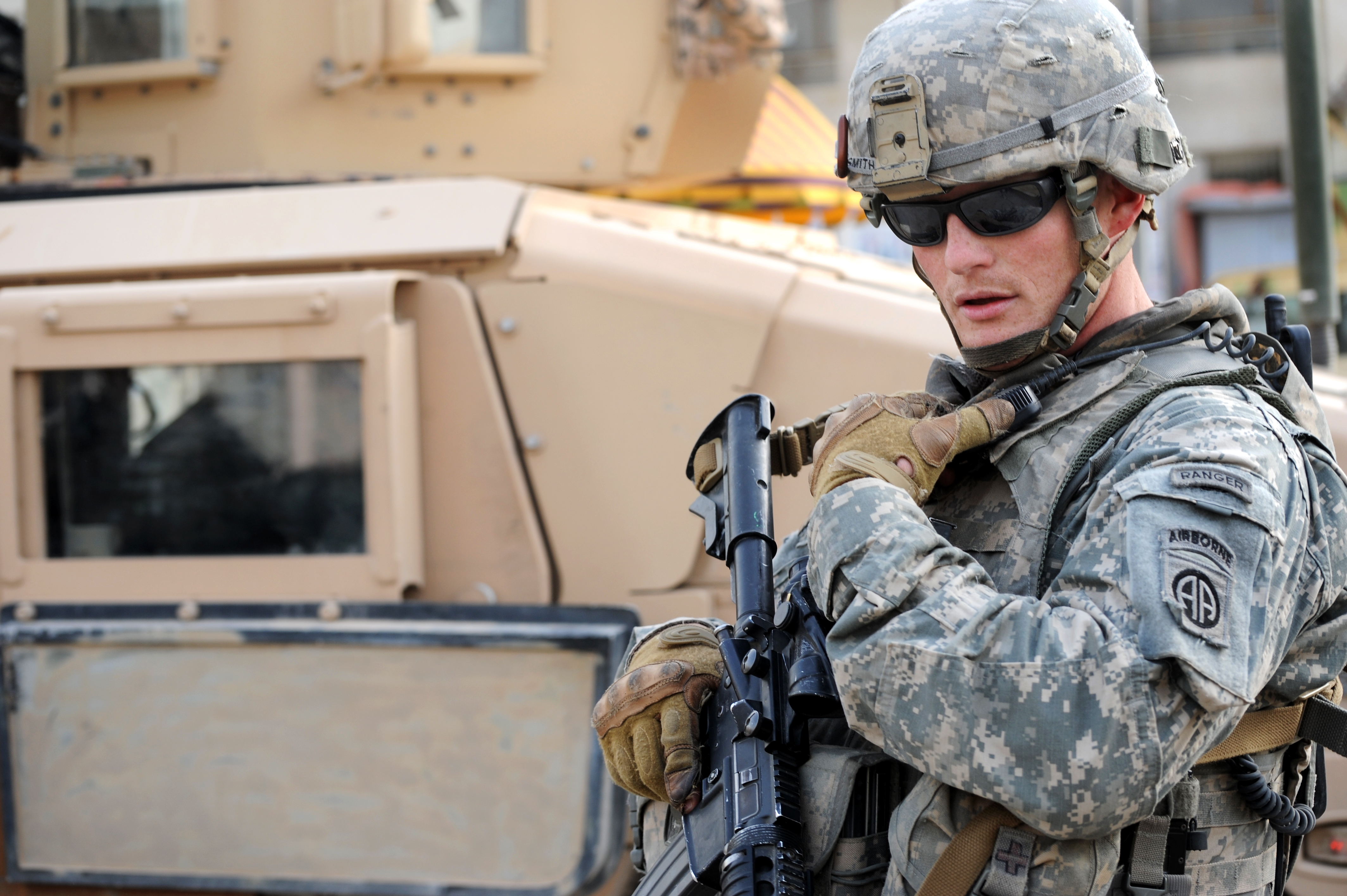 U.S. Army 1st Lt. Steve Smith talks on the radio near the scene of fighting between Iraqi security forces and renegade members of the Sons of Iraq in the Al-Fadhel neighborhood of eastern Baghdad, Iraq, March 29, 2009. Smith is assigned to the 82nd Airborne Division's 3rd Brigade Combat Team. U.S. Army photo by Staff Sgt. James Selesnick See more at Army.mil